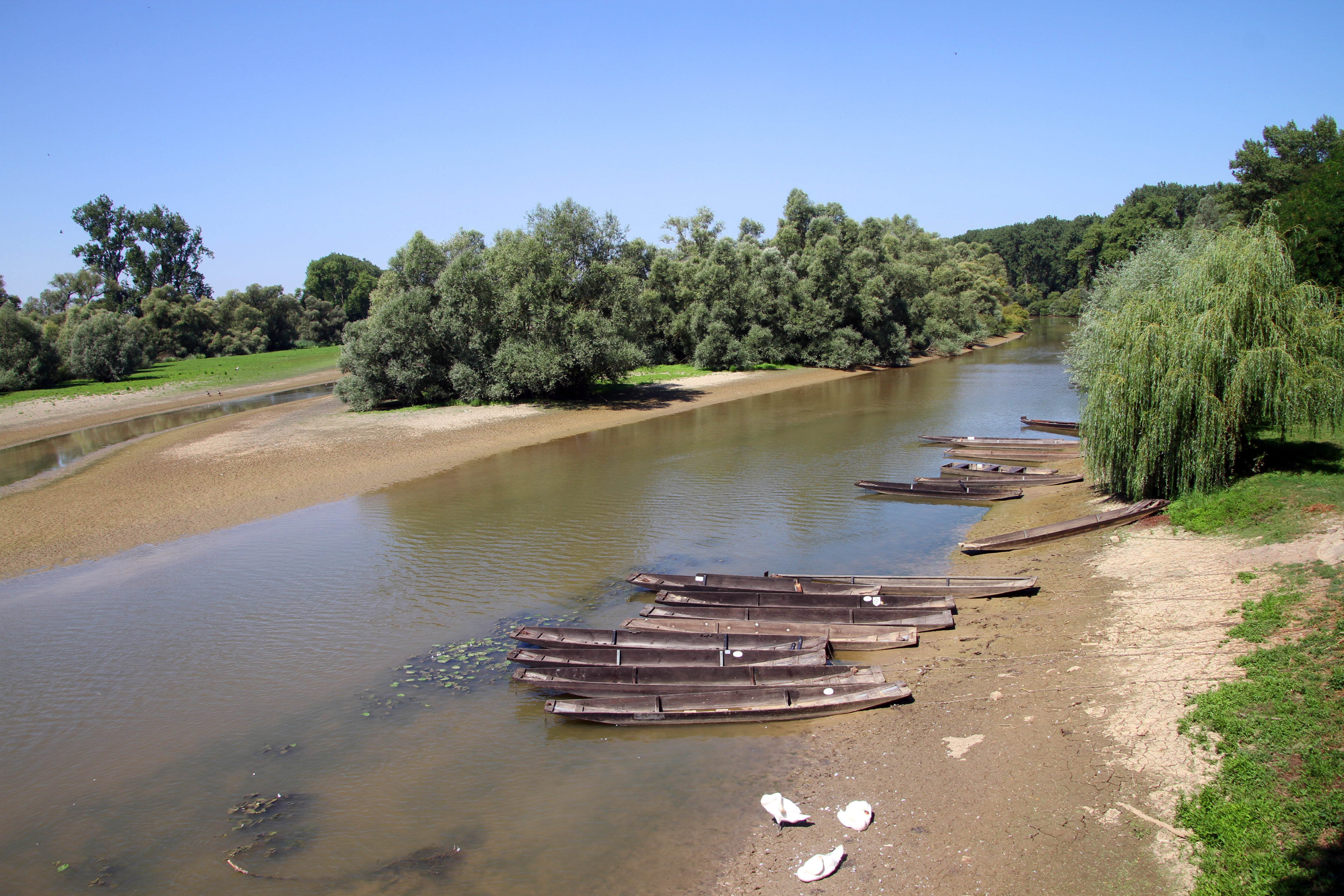 Delta of the Sauer near Munchhausen.